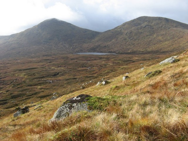 Lochan a Bhealach Rough heather landscape fills most of this area with the lochan providin some interest. Sgor Gaibhre and Sgor Choinnich can be seen in the distance.